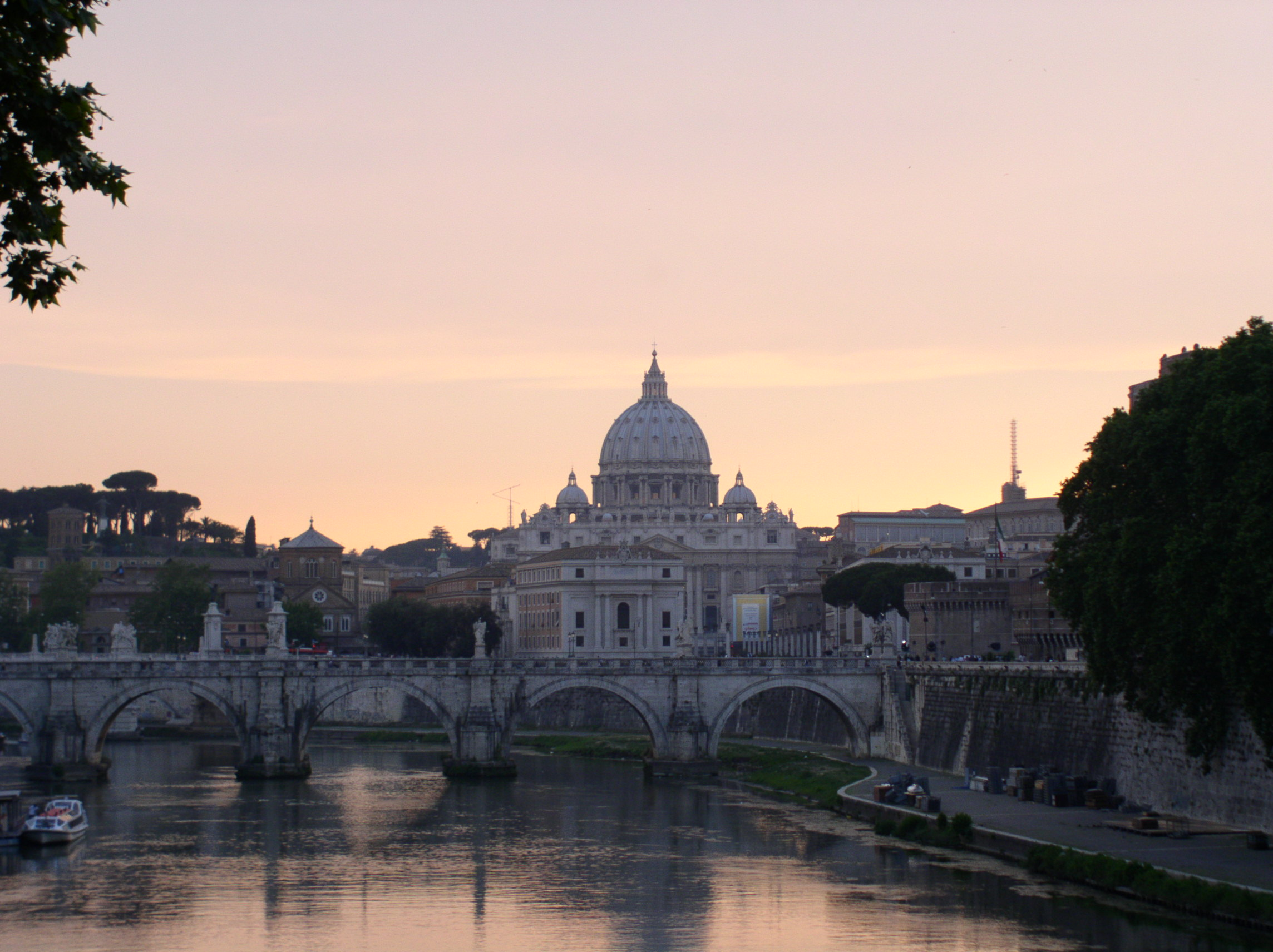 View of the Vatican from Bridge on the Tiber